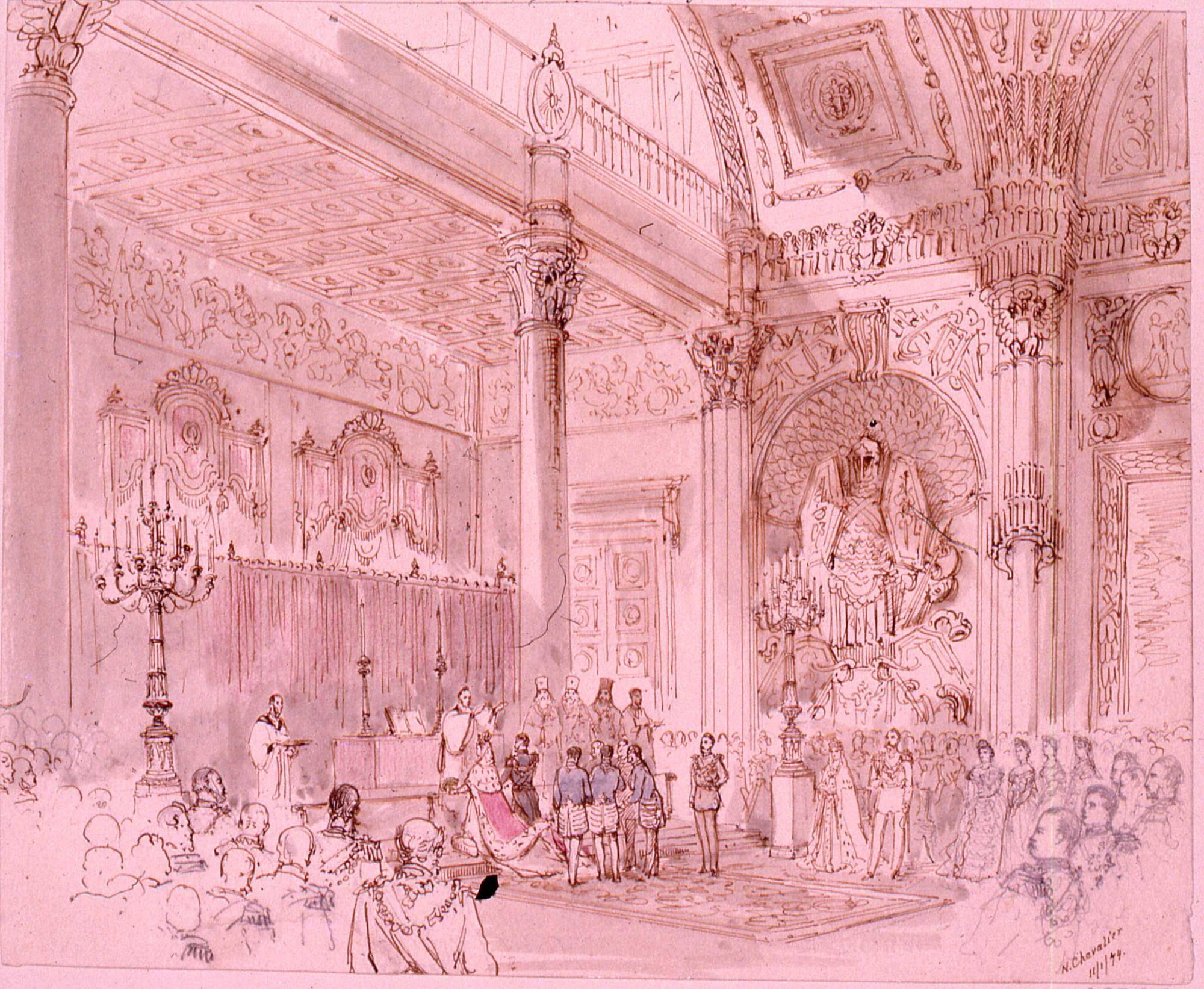 Marriage of Alfred, Duke of Edinburgh and the Grand Duchess Marie Alexandrovna of Russia, St Petersburg, 23 January 1874: The Anglican Ceremony DM 1016: The Anglican Ceremony in the Alexander Hall of the Winter Palace; Arthur Penrhyn Stanley, the Dean of Westminster shown pronouncing the blessing upon the bride & groom. This service followed the Russian ceremony. Signed & dated.